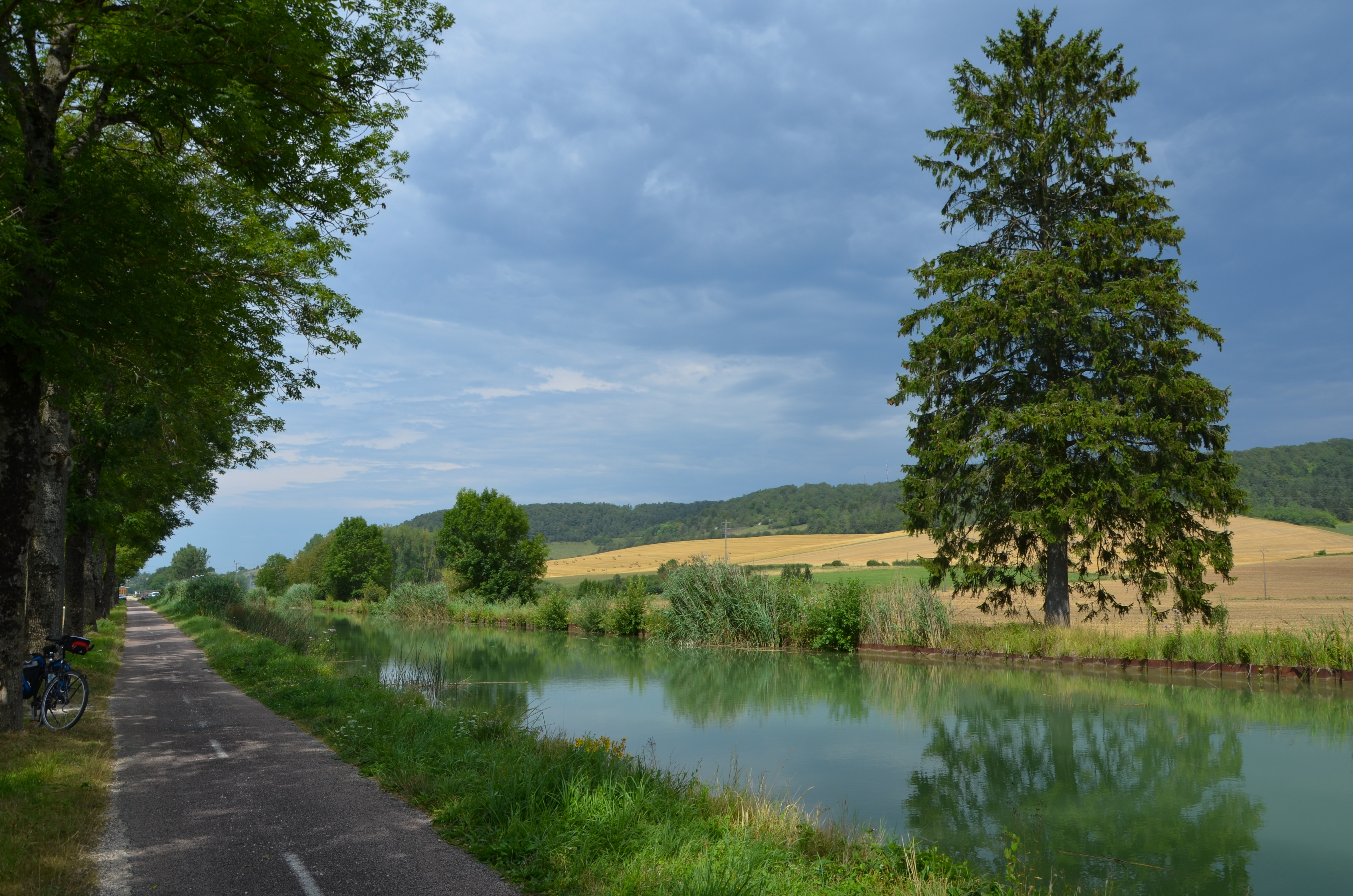 Canal de la Marne à la Saône near St Urbain Maconcourt , Haute Marne, France